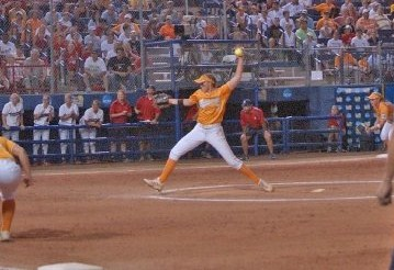 Lady Vols pitcher